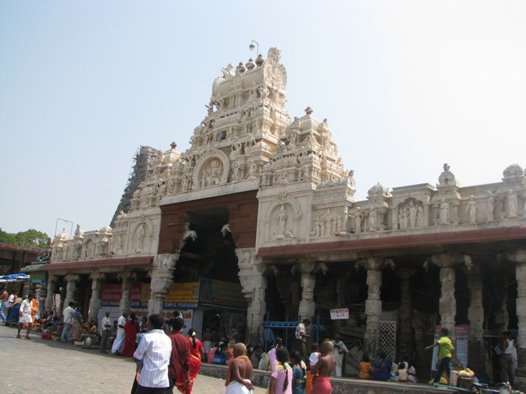 Thiruchendur temple